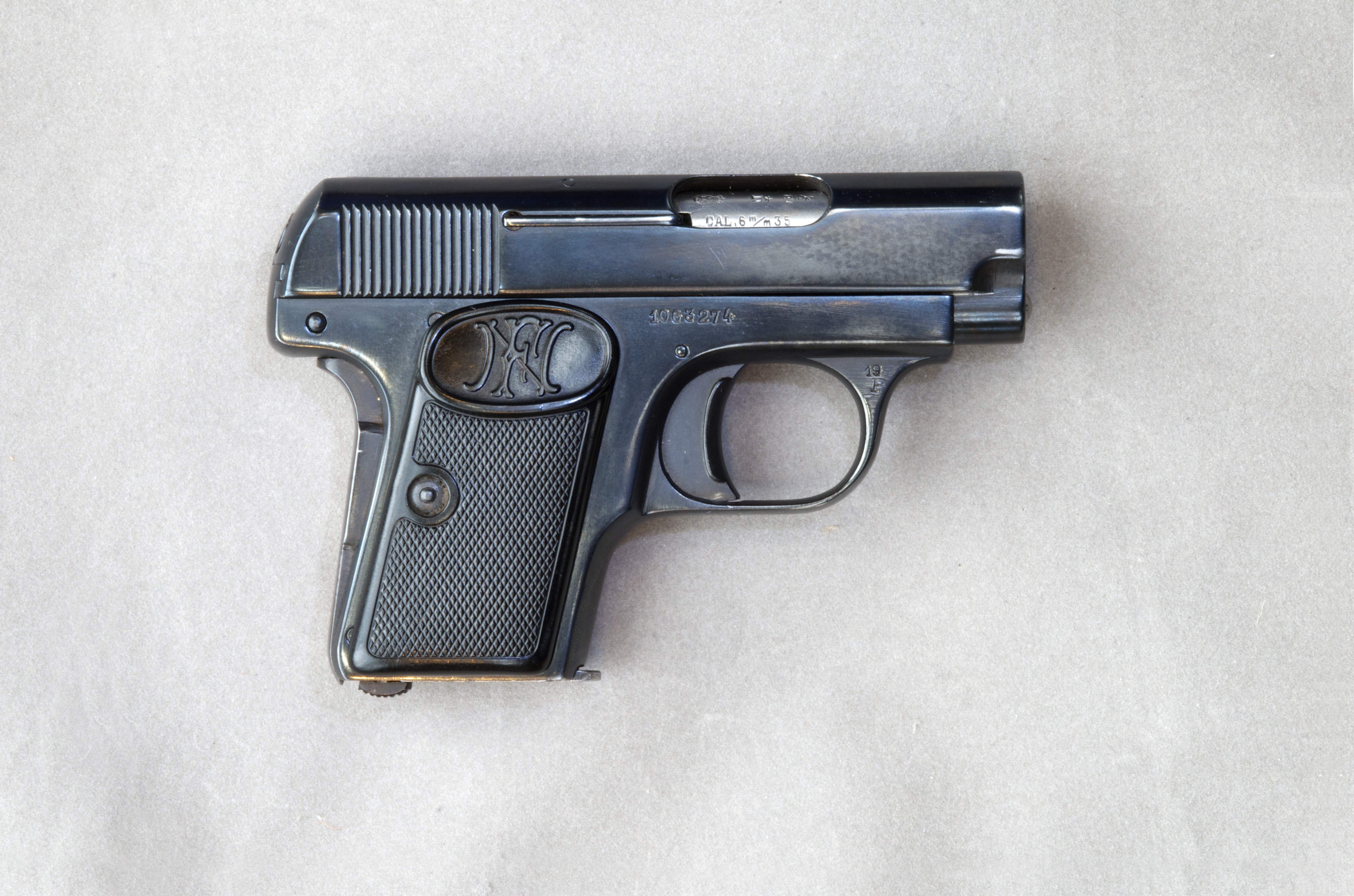 Browning 1906 .25 ACP S/n 1063274 right side. A.k.a. FN 1906, Browning 1905, FN 1905. Believed to be manufactured either just before or after World War II (c. 1939-1940 or after c. 1946-1947). Located Saugerties, NY, 2013. See separate file for other side of weapon.